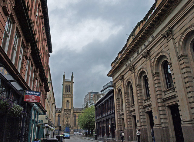 Candleriggs, Glasgow A candle work formerly occupied a site at its north end, hence the name. The City Halls on the right and St. Davids Church (now Ramshorn Theatre) at the end of Candleriggs on Ingram Street.